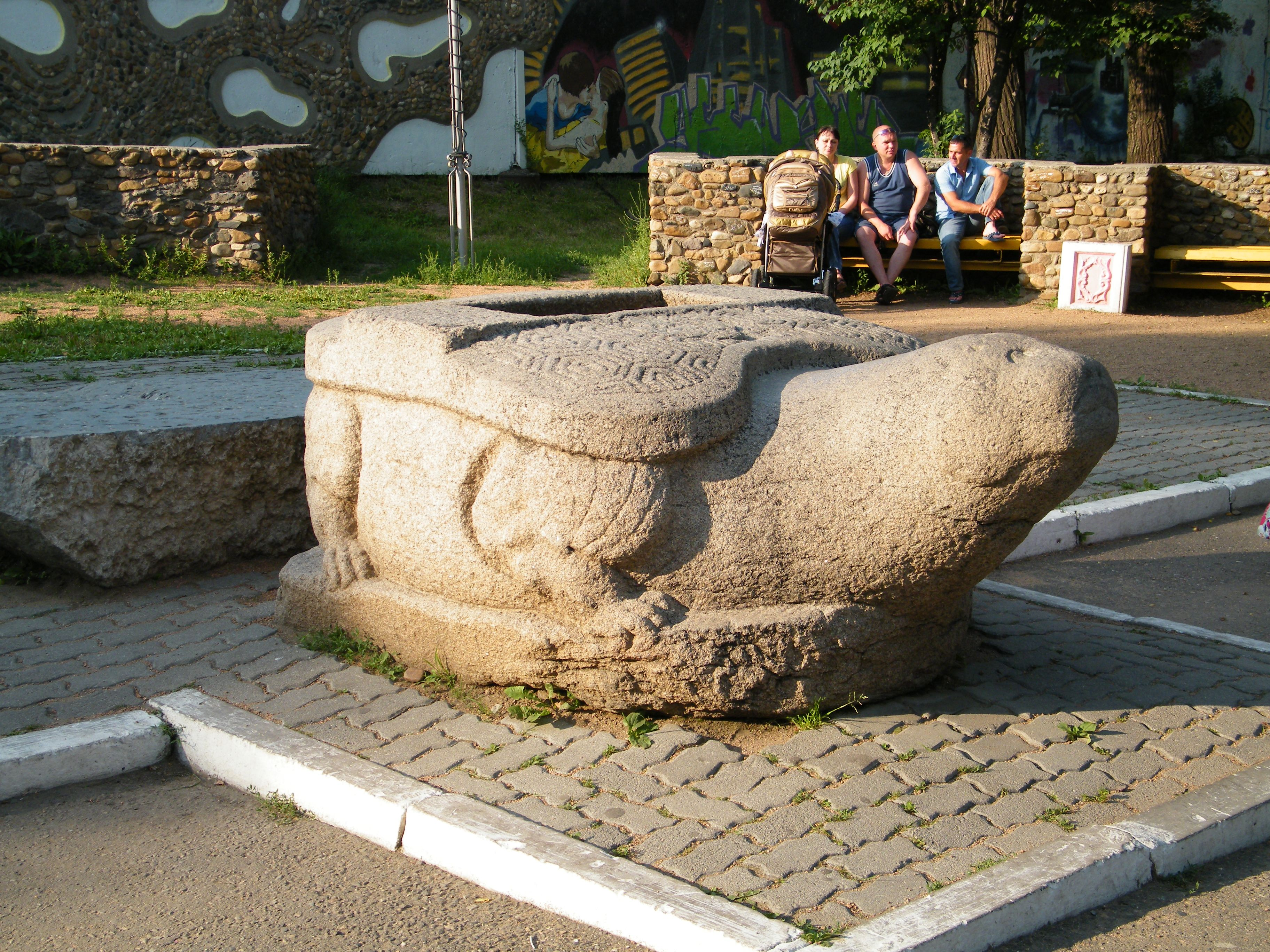 Bixi in Ussuriysk